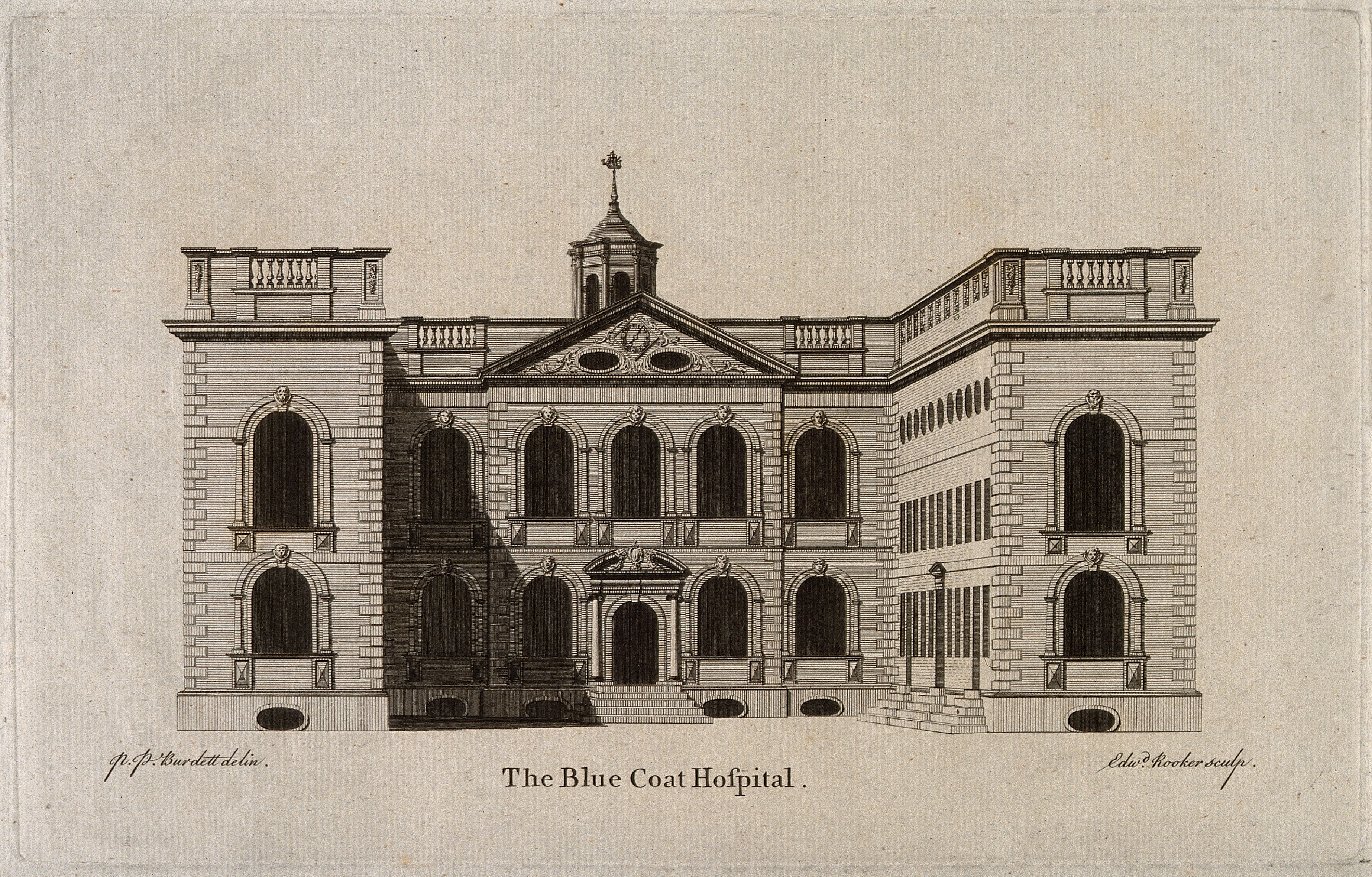 Blue Coat Hospital, Liverpool, Merseyside. Line engraving by E. Rooker after P.P. Burdett. Iconographic Collections Keywords: Edward Rooker; Peter Perez Burdett